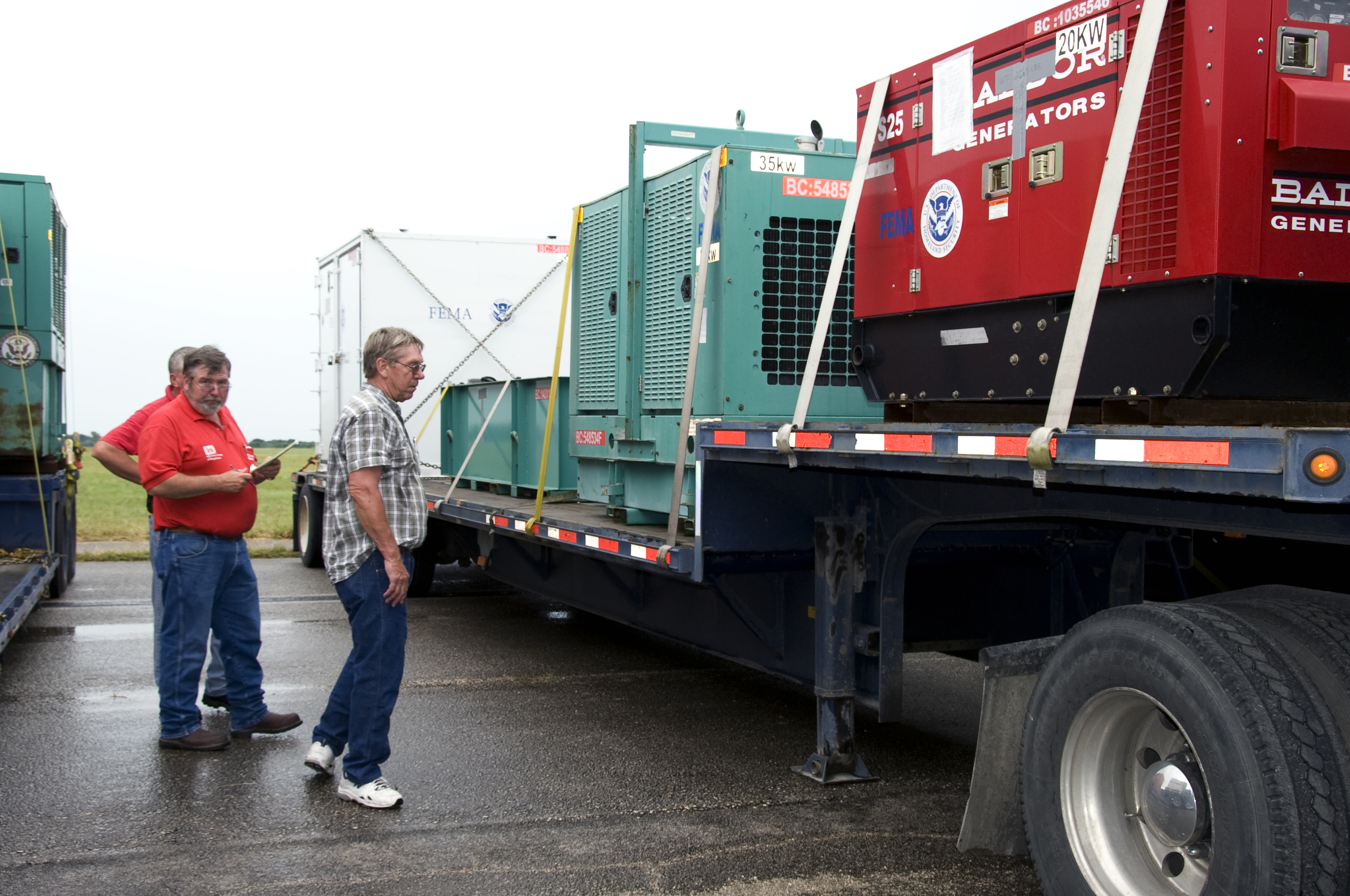 Seguin, TX, June 30, 2010 --Trucks carrying relief supplies for Hurricane Alex survivors are being checked into the FEMA staging area at the Randolf Air force base annex in Seguin, TX. Members of the Army Corps of Engineers check to make sure that generators are on their list. FEMA is working with local, state and other federal agencies to preposition supplies in case they are needed. Photo by Patsy Lynch/FEMA